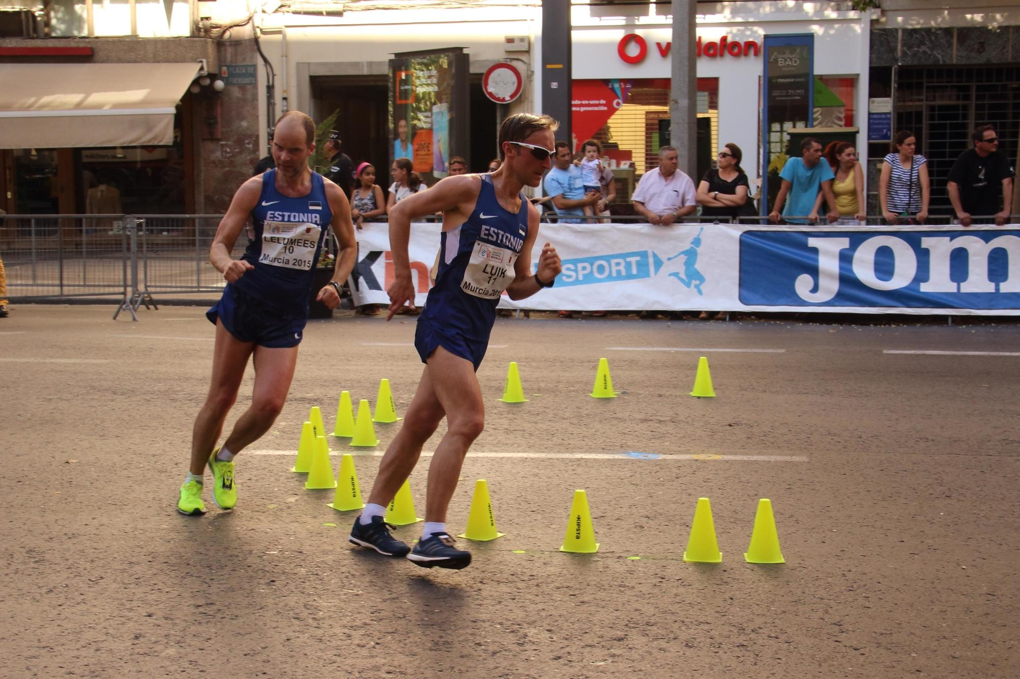 11-Margus Luik (EST) y 10-Lauri Lelumees (EST) in the 11th European Cup Race Walking Murcia ESP 17 May 2015